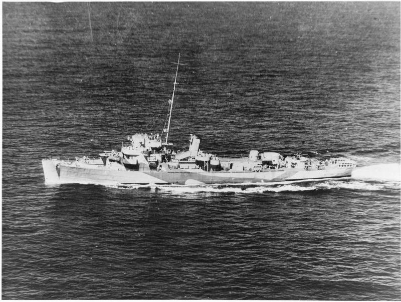 HMS Torrington Underway.